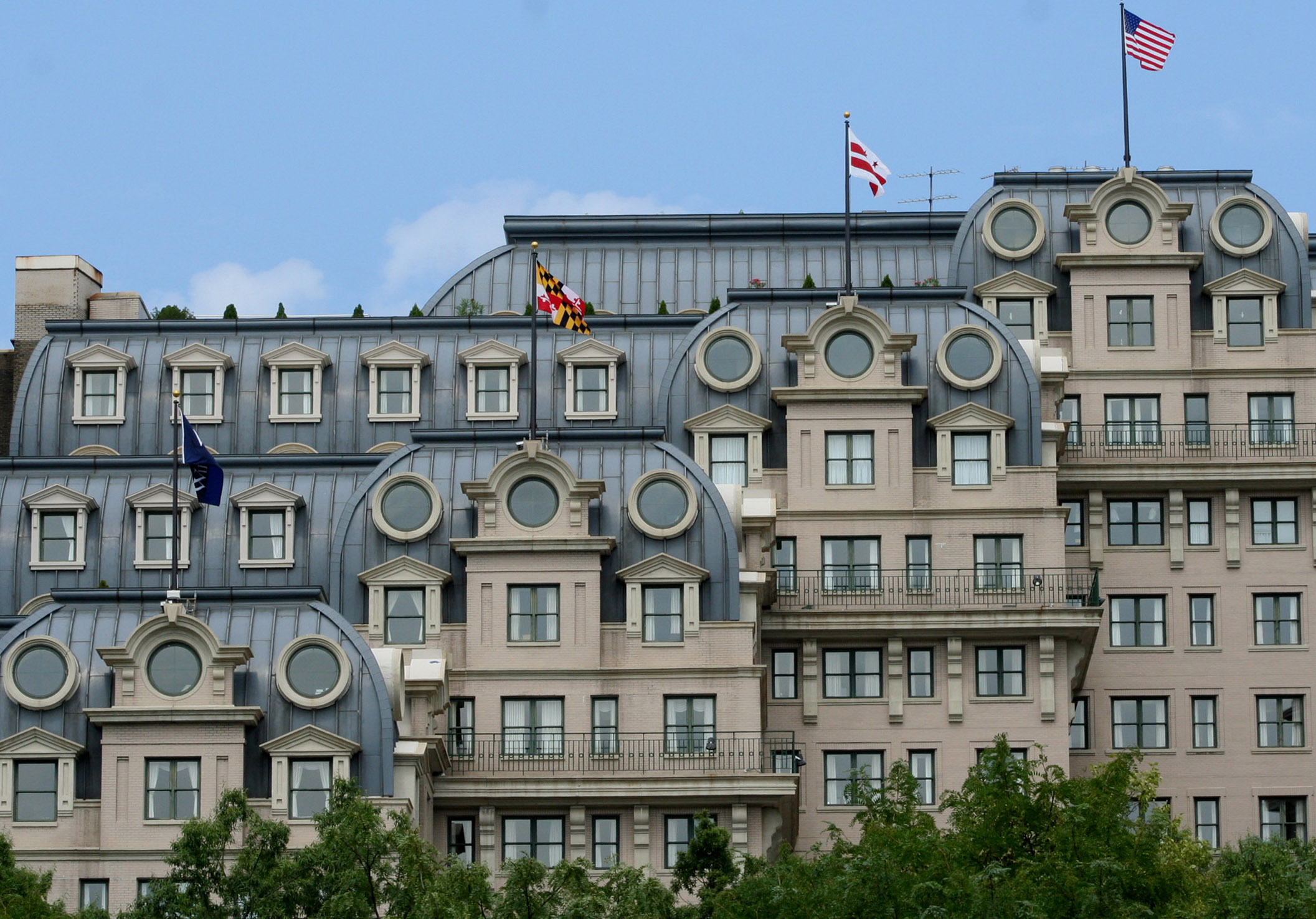 The Willard Hotel The Willard InterContinental in Washington, D.C.